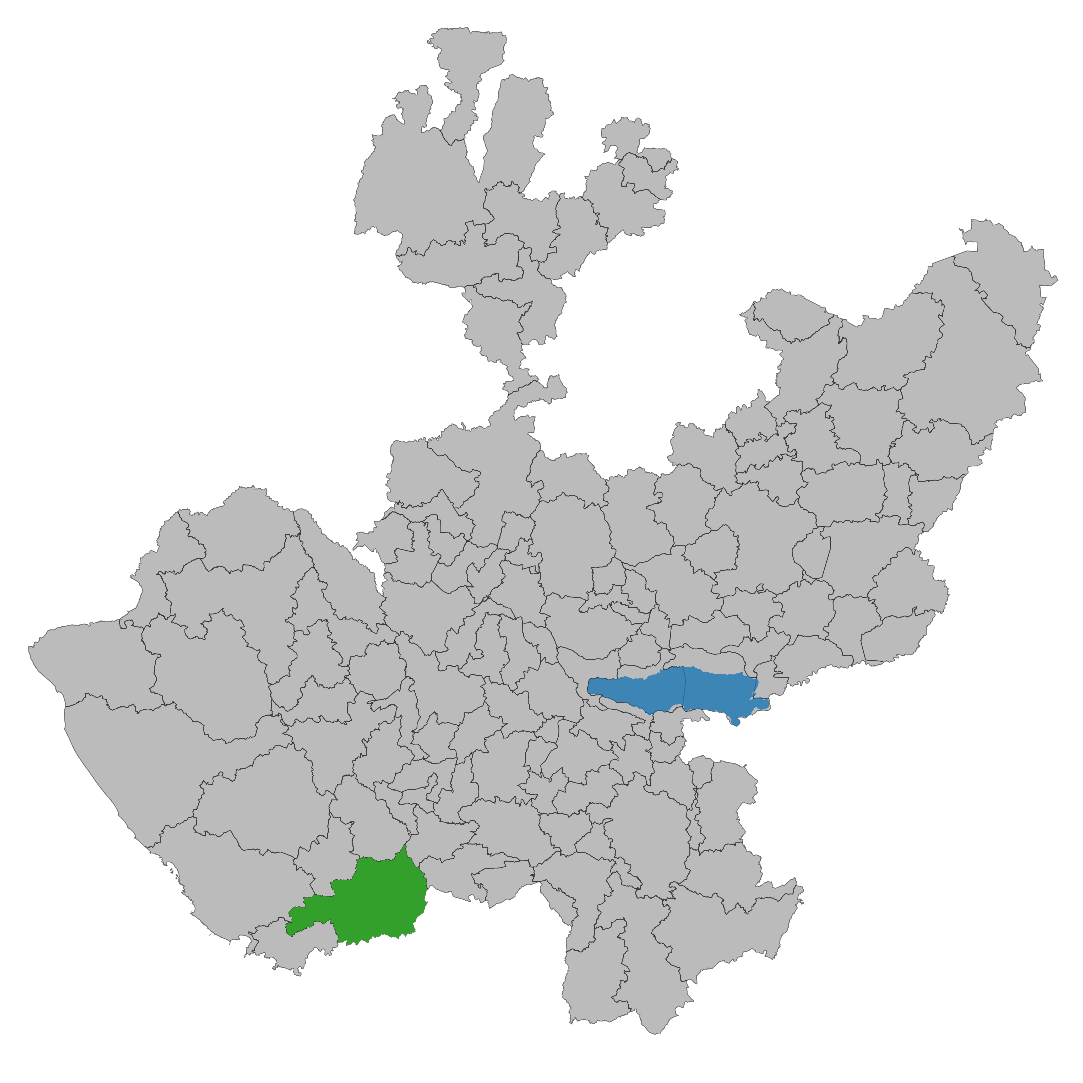 Municipality of Jalisco. Prepared with the software QGIS version 2.8.2 Wien & with information of SCINCE 2010 version 05/2013